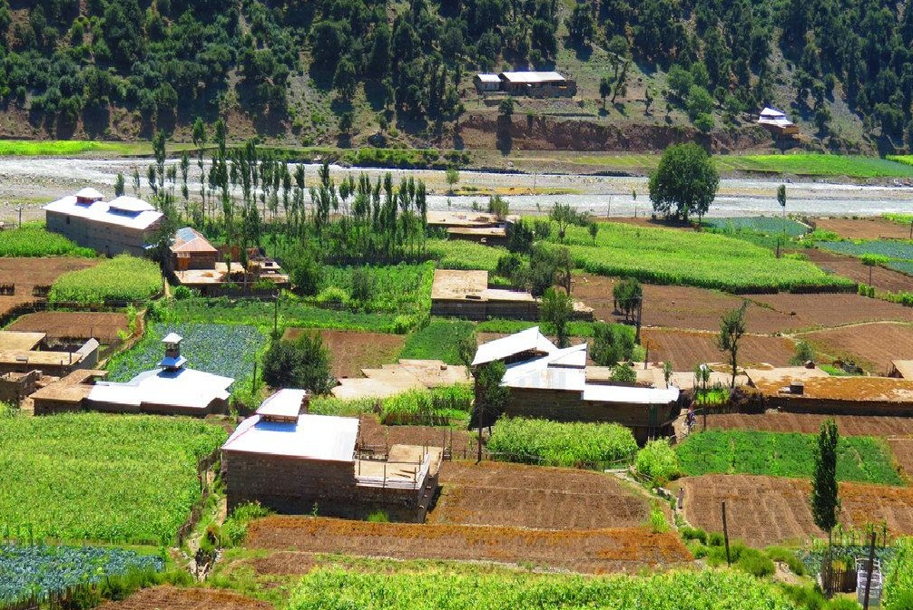 Kumrat valley, upper Dir Kohistan